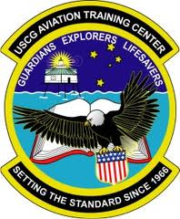 USCG ATC Emblem